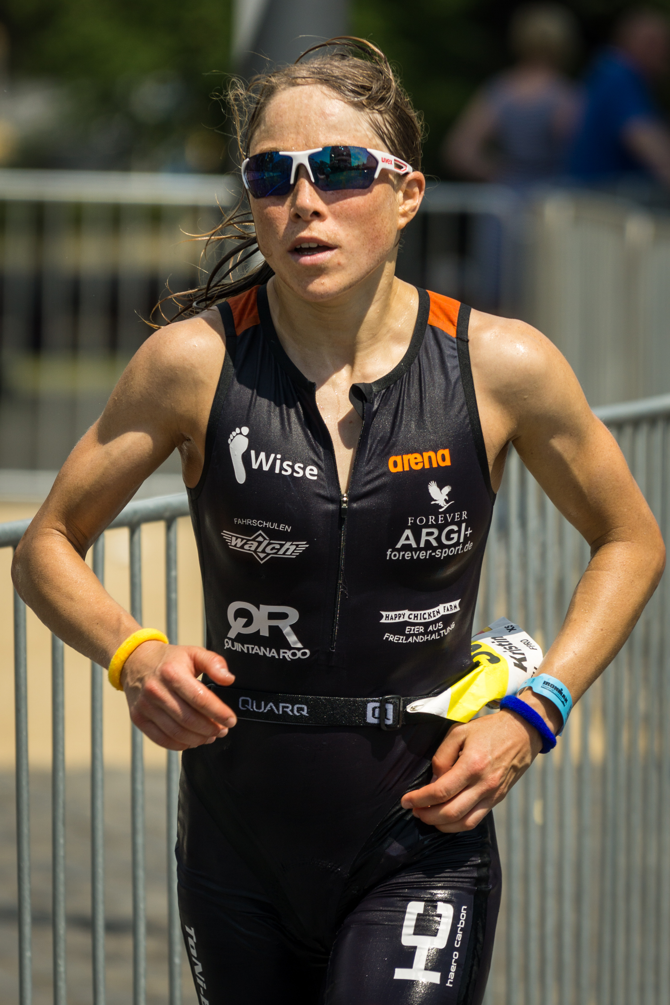 Kristin Möller at the 2015 Ironman European Championship in Frankfurt am Main.